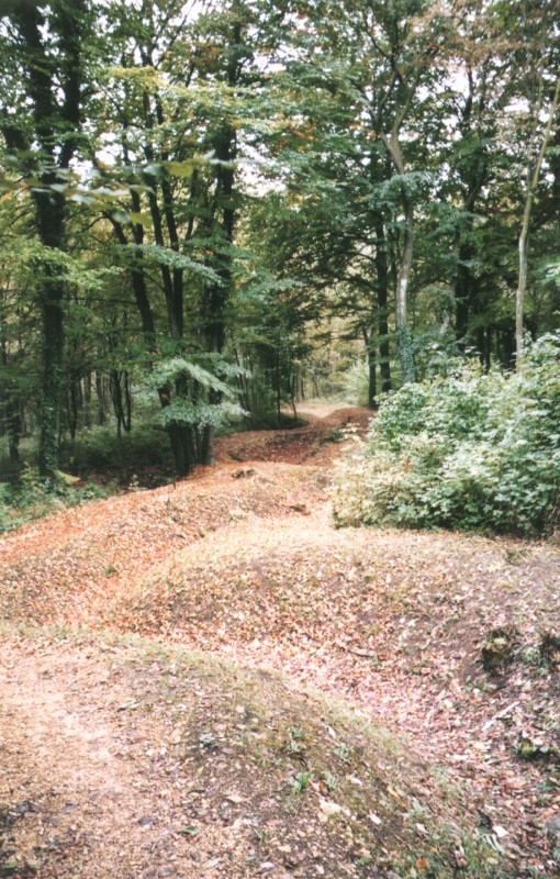 Trench line on the former battlefield of Verdun, near Fort Souville.